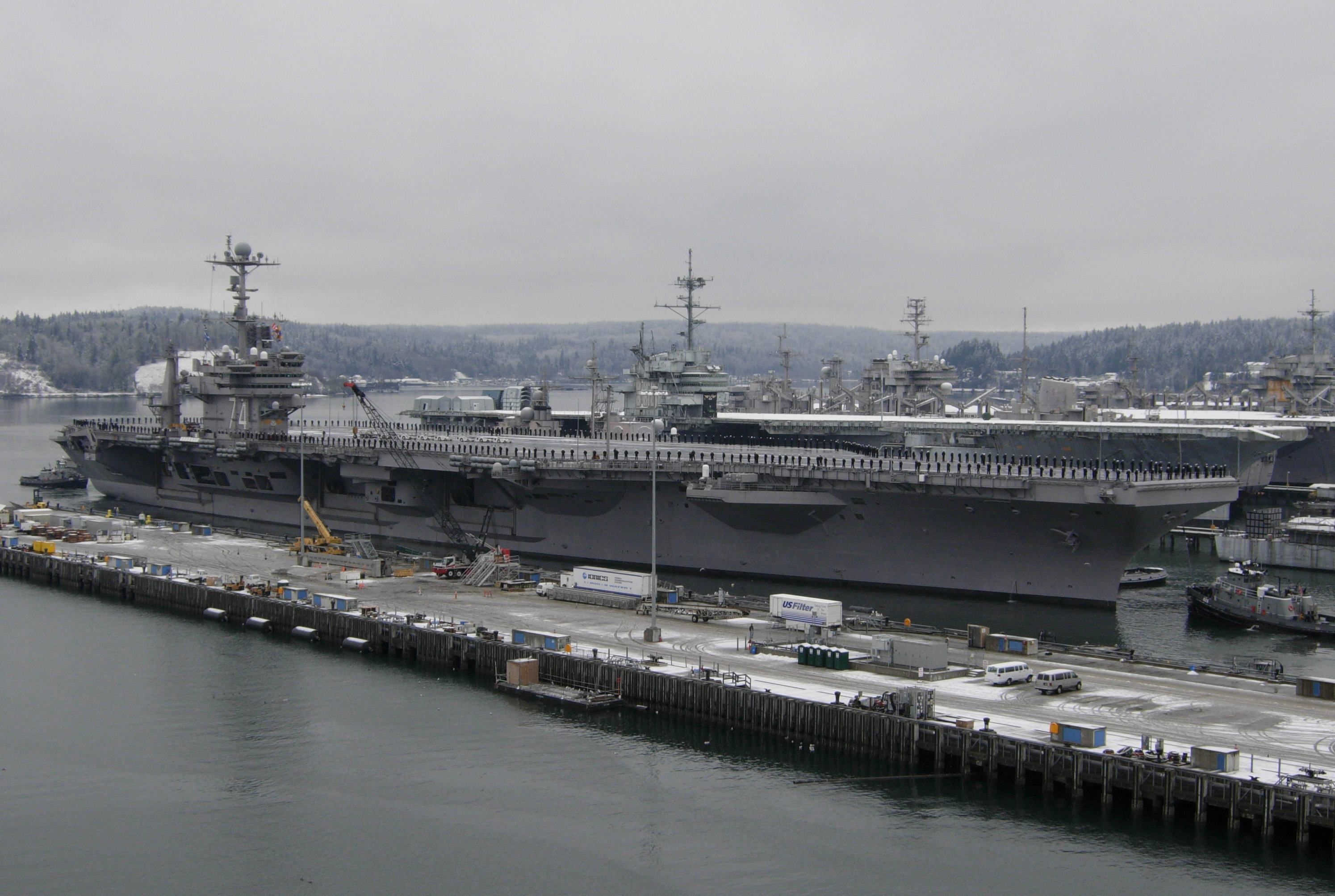 U.S. Navy Sailors man the rails aboard USS John C. Stennis (CVN 74) as the ship pulls out of Naval Base Kitsap in Bremerton, Wash., Jan. 16, 2006, for a regularly scheduled deployment.